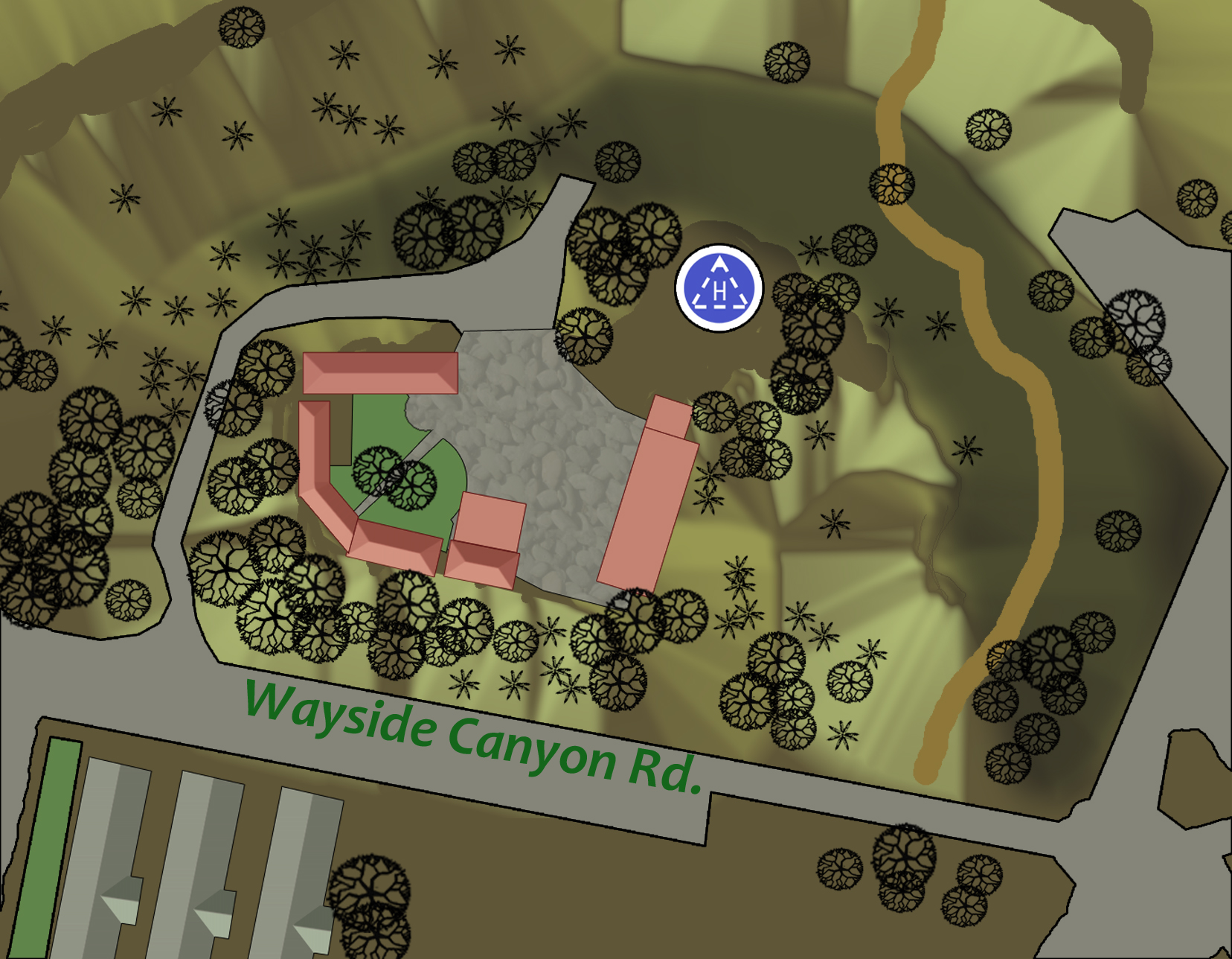 Overhead view of the Sheriff's Wayside Heliport, FAA code 81L, locaed in the Pitchess Detention Center in Castaic, California.